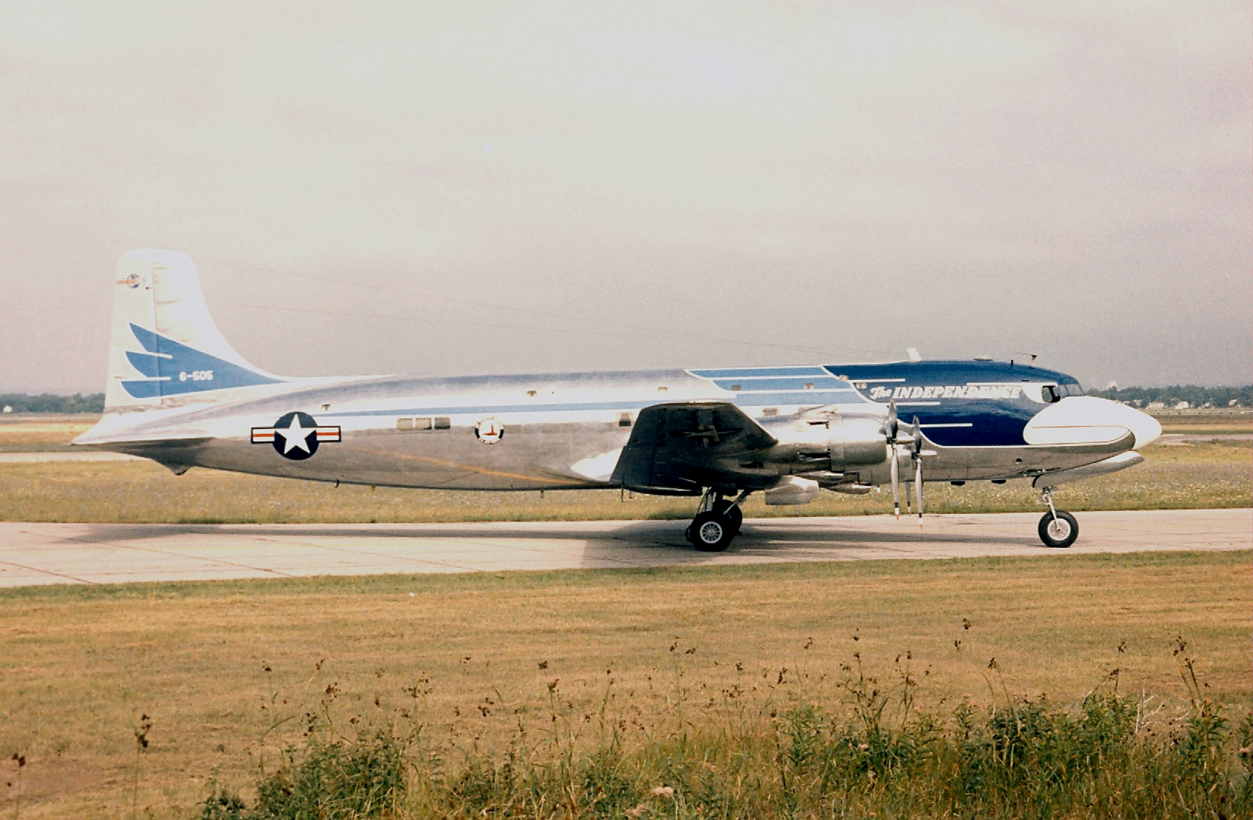 Photograph of President Harry S. Truman's airplane, a Douglas VC-118 (s/n 46-505) called "The Independence". In 1947 USAAF officials ordered the 29th production DC-6 to be modified as a replacement for the aging Douglas VC-54C Skymaster "Sacred Cow" presidential aircraft. It differed from the standard DC-6 configuration in that the aft fuselage was converted into a stateroom. Also, the main cabin seated 24 passengers or could be made up into 12 "sleeper" berths. The VC-118 was formally commissioned by the USAAF on 4 July 1947, and was nicknamed "Independence" for Truman’s hometown in Missouri (USA). The aircraft is today in display at the National Museum of the USAF.